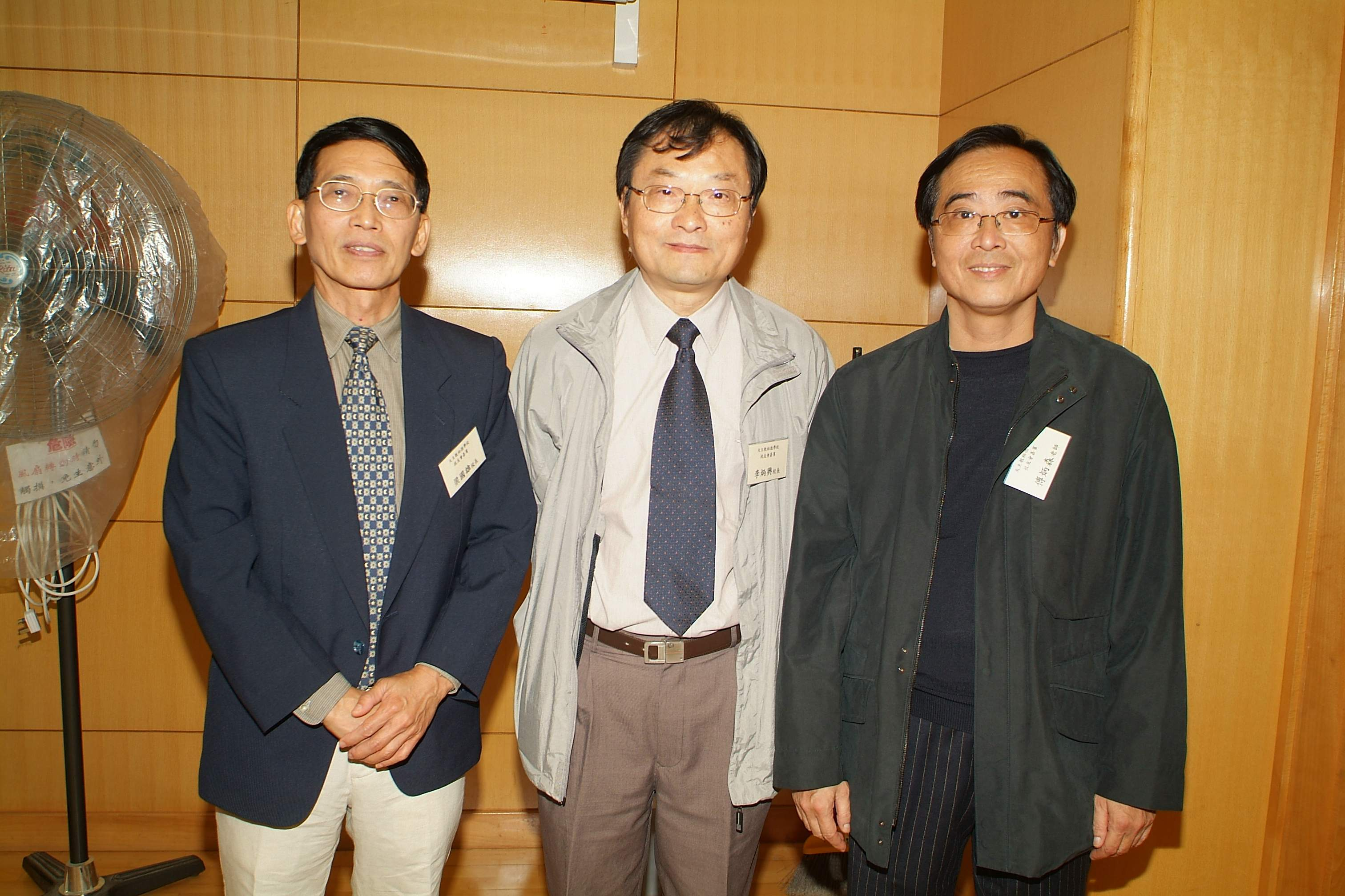 Mr Leung Kwok Hung (in navy blue jacket), ex-headmaster of Bishop Paschang Memorial School with Mr Lee Bing Hing and Mr Martin Fu